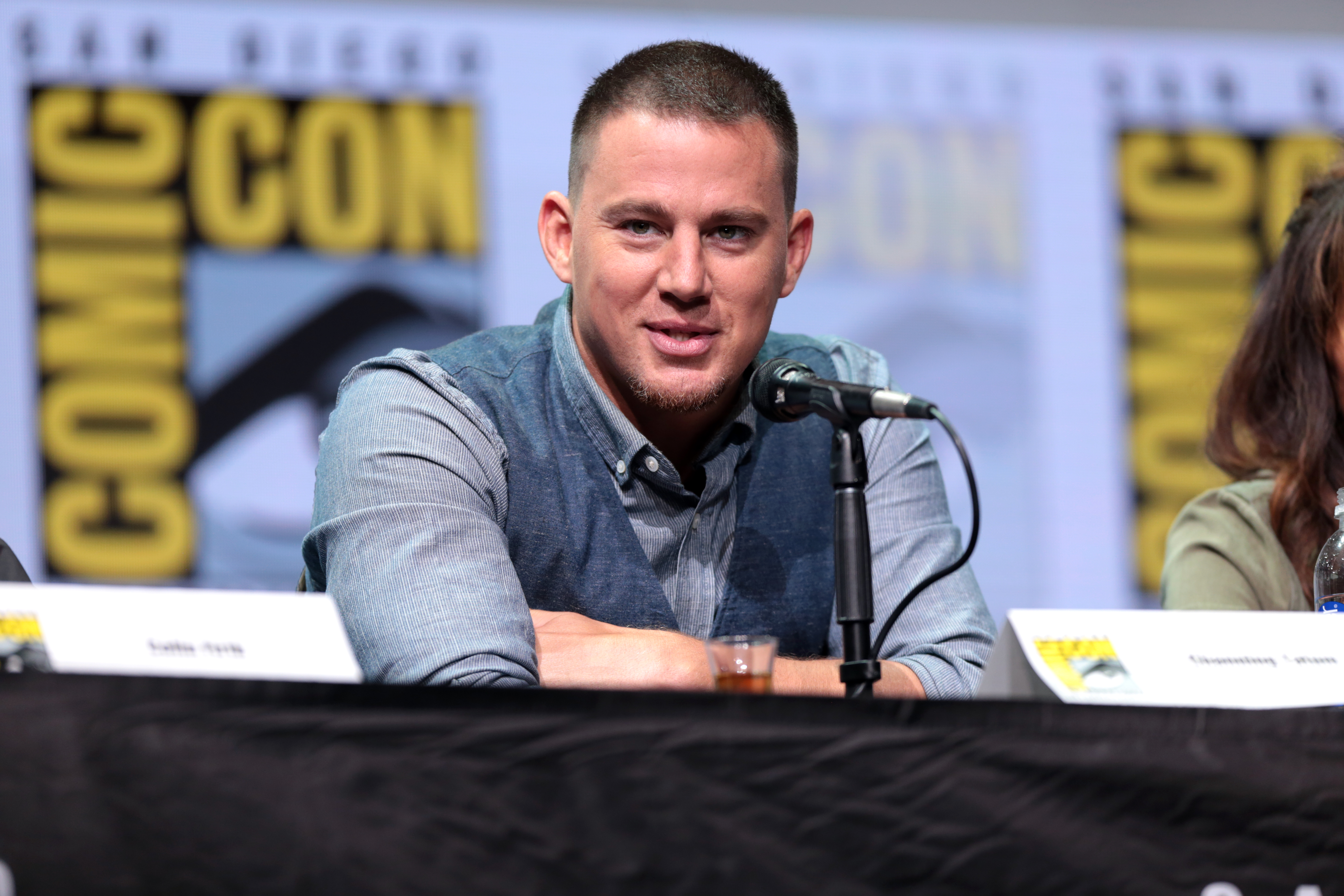 Channing Tatum speaking at the 2017 San Diego Comic Con International, for "Kingsman: The Golden Circle", at the San Diego Convention Center in San Diego, California.